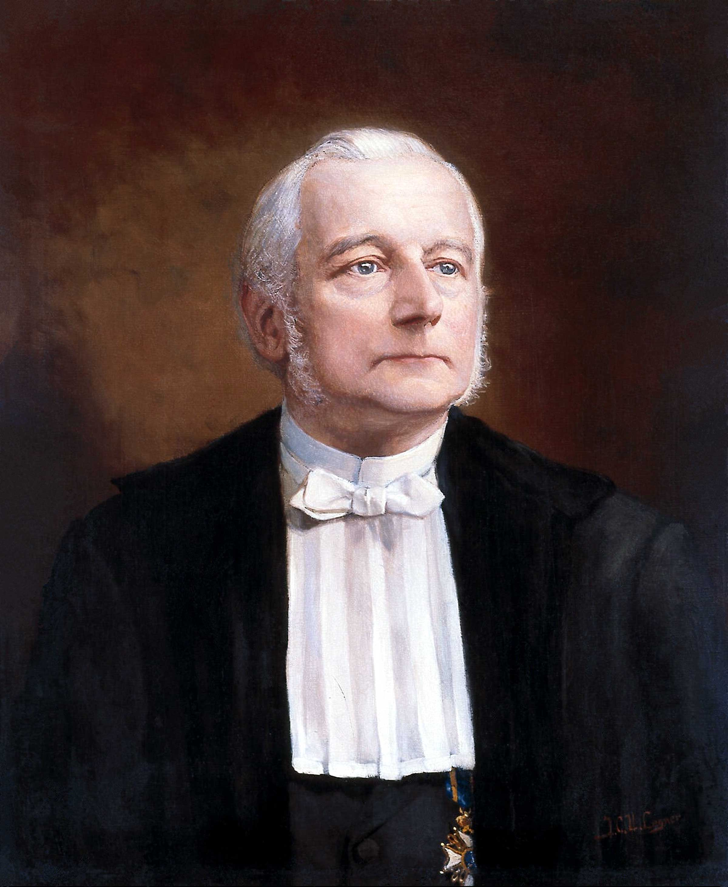 Gijsbert Hendrik Lamers (1834-1903) Dutch Reformed theologian and church historian